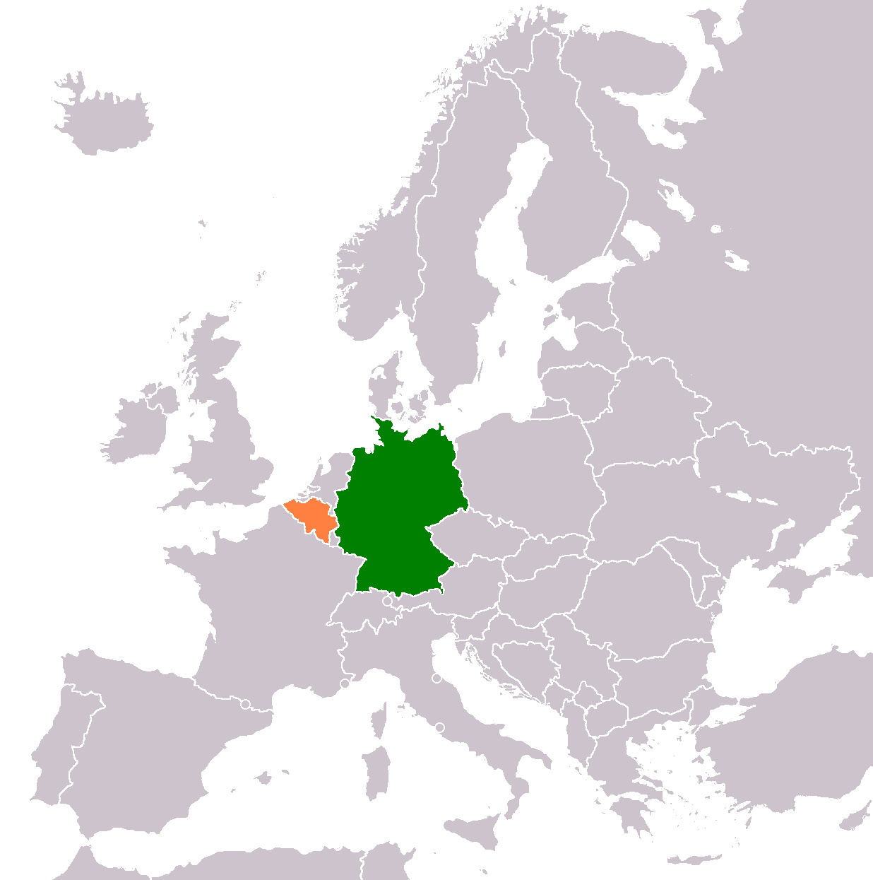 Belgium-Germany locator map